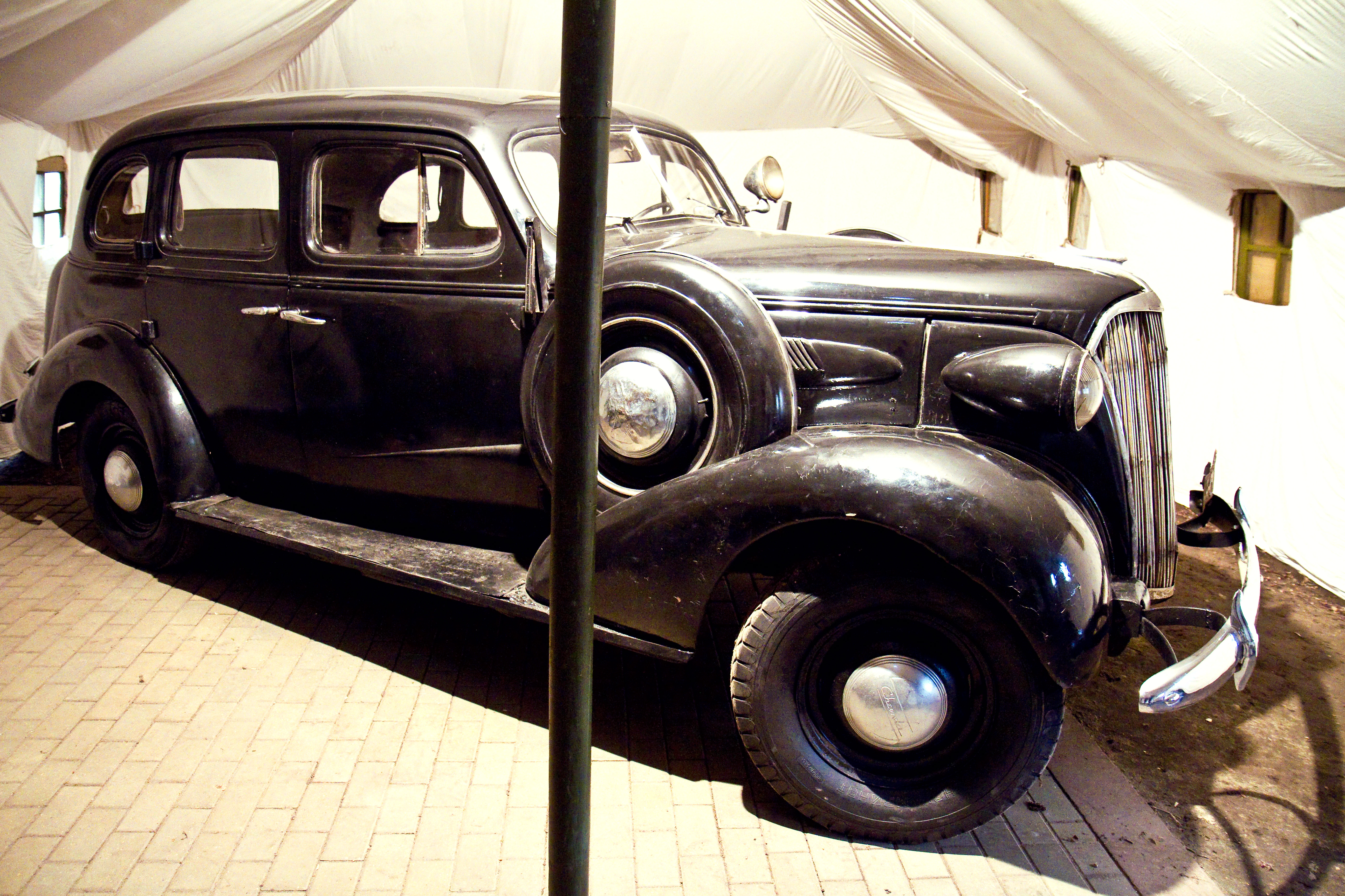 Chevrolet Master Deluxe GA which belonged to Janka Kupała, the Belarusian writer Беларуская (тарашкевіца): Аўтамабіль Chevrolet Master Deluxe GA, які належаў Янку Купалу